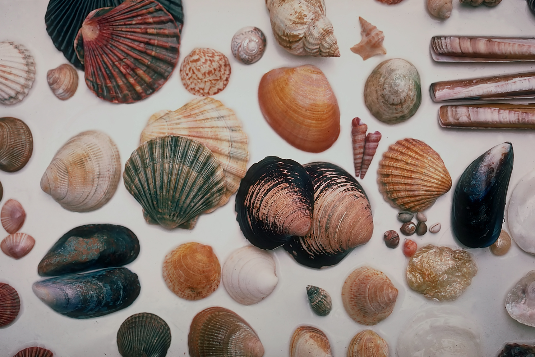 Seashells: marine bivalves and gastropods from Shell Island, a coastal peninsula south of Harlech Castle, in North Wales/ Great Britain. There we found about 25 different species out of 200 shells we picked up